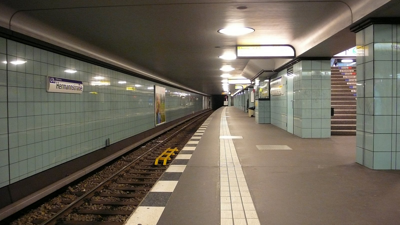 Subway Hermannstr